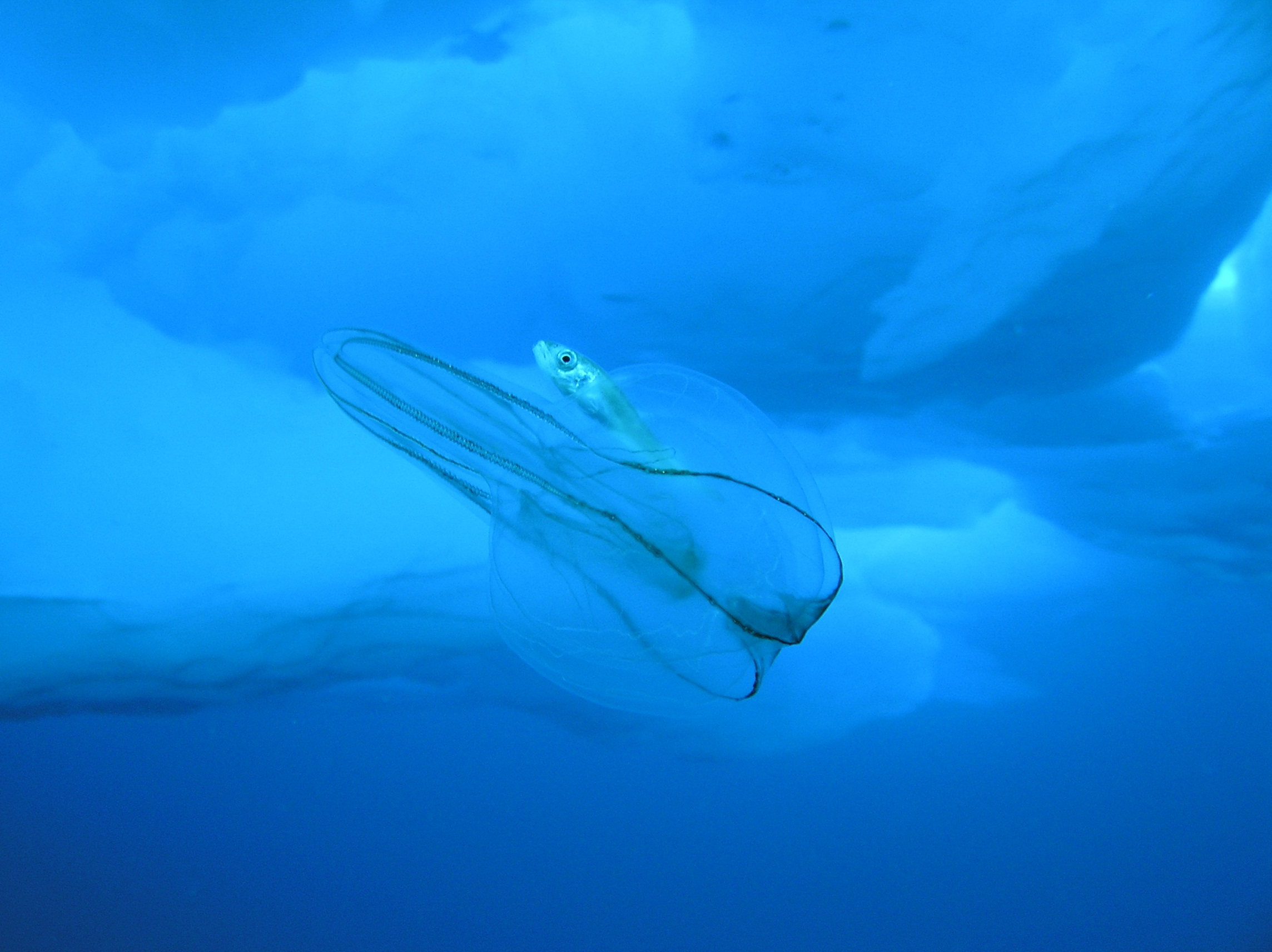 Mertensia ovum comb jellyfish outlined against the ice with accompanying codfish.